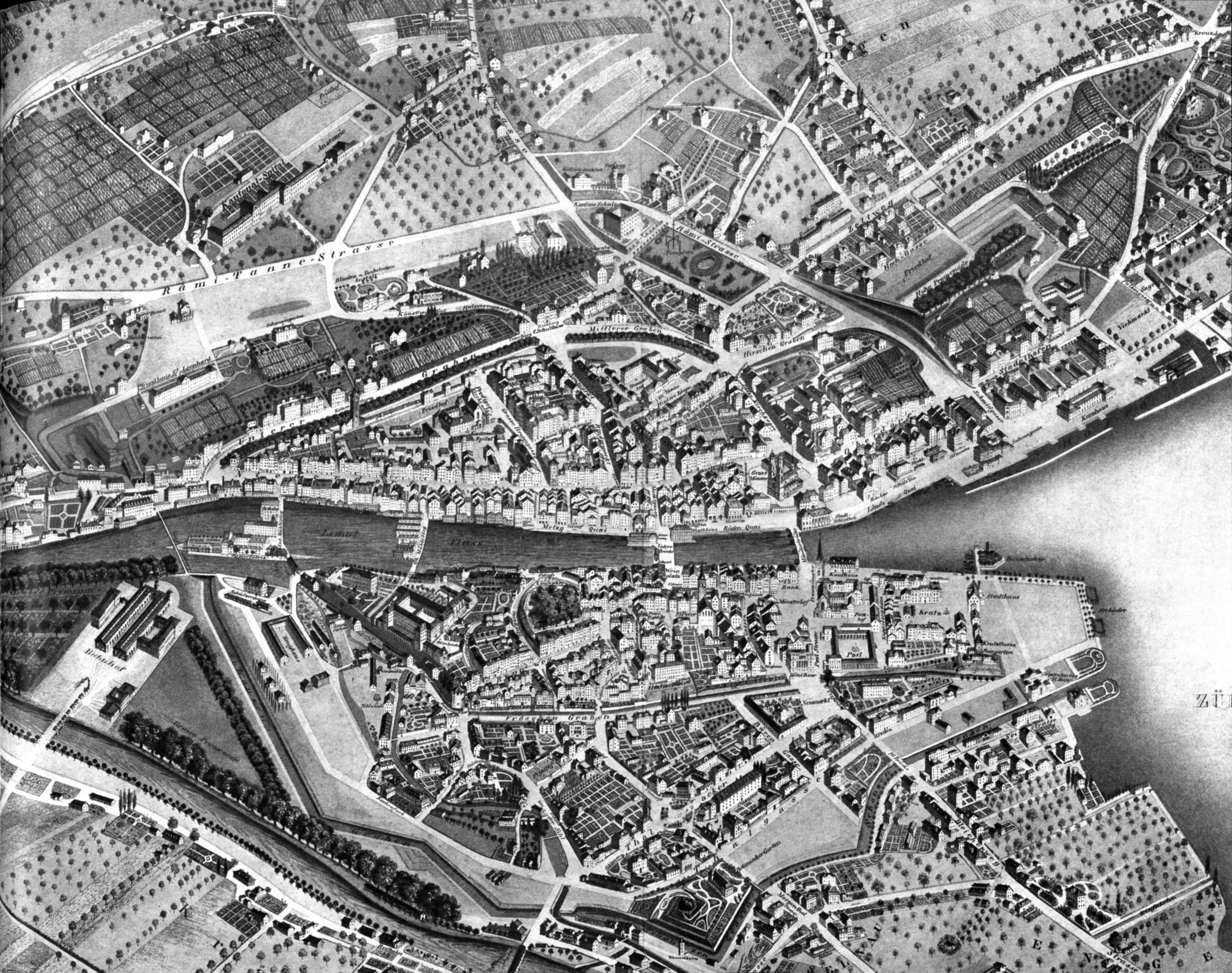 Old map of Zürich, Switzerland, 1850